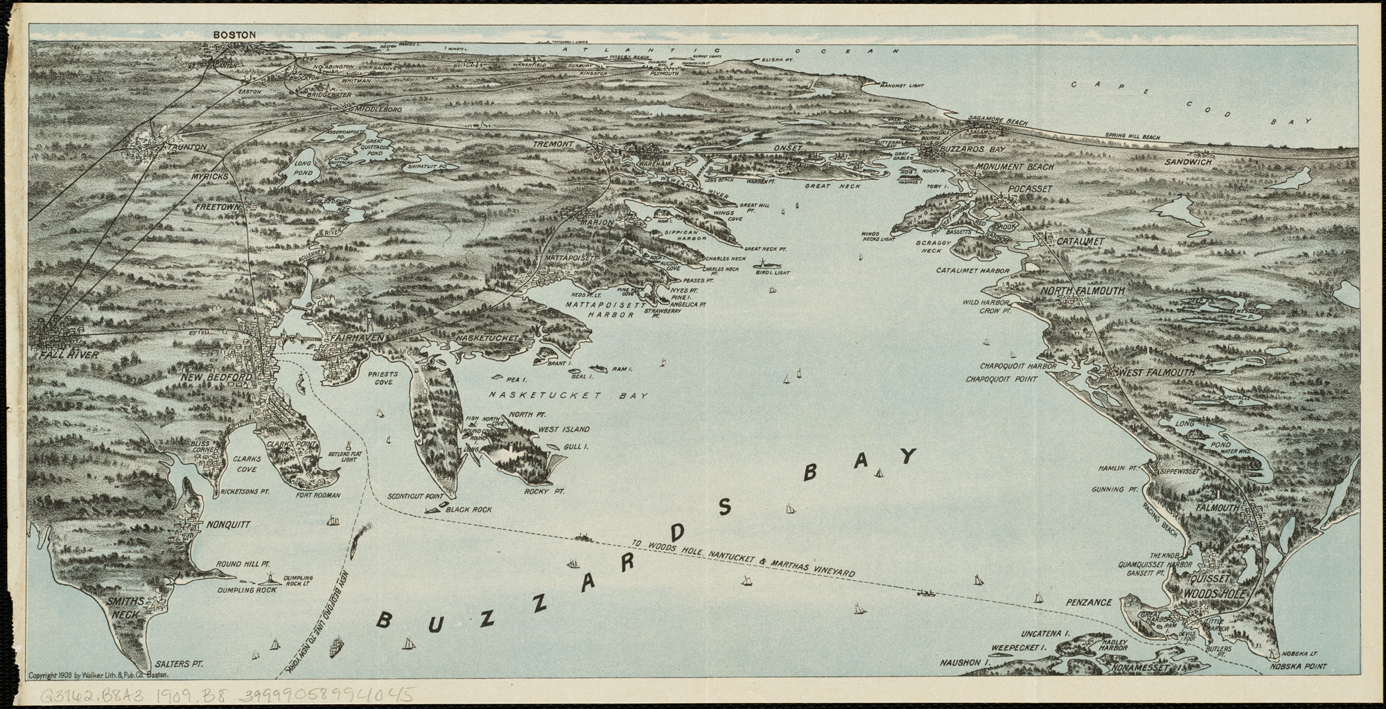 Zoom into this map at . Publisher: Walker Lith. & Pub. Co. Date: 1909. Location: Buzzards Bay (Mass.) Scale: Not drawn to scale. Call Number: G3762.B8A3 1909.B8